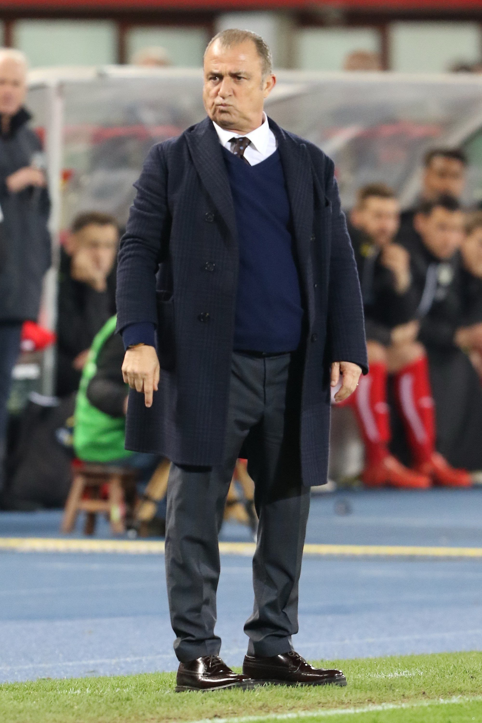 Friendly match – Austria (red shirts) vs. Turkey (blue shirts) 1–2 (1–1) on 2016-03-29 in Ernst-Happel-Stadion, Vienna – The photo shows Fatih Terim (headcoach) of Turkey national football team.